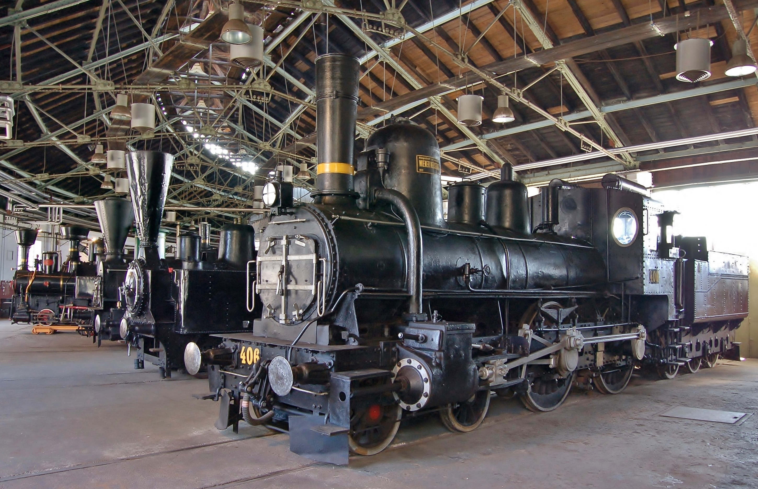 An ex-Südbahn Class 17c locomotive (later operated as Graz-Köflacher Eisenbahn (GKB) no. 406), on display at the Railway Museum of Slovenian railways (also known as the Slovenian Railway Museum), Ljubljana, Slovenia.